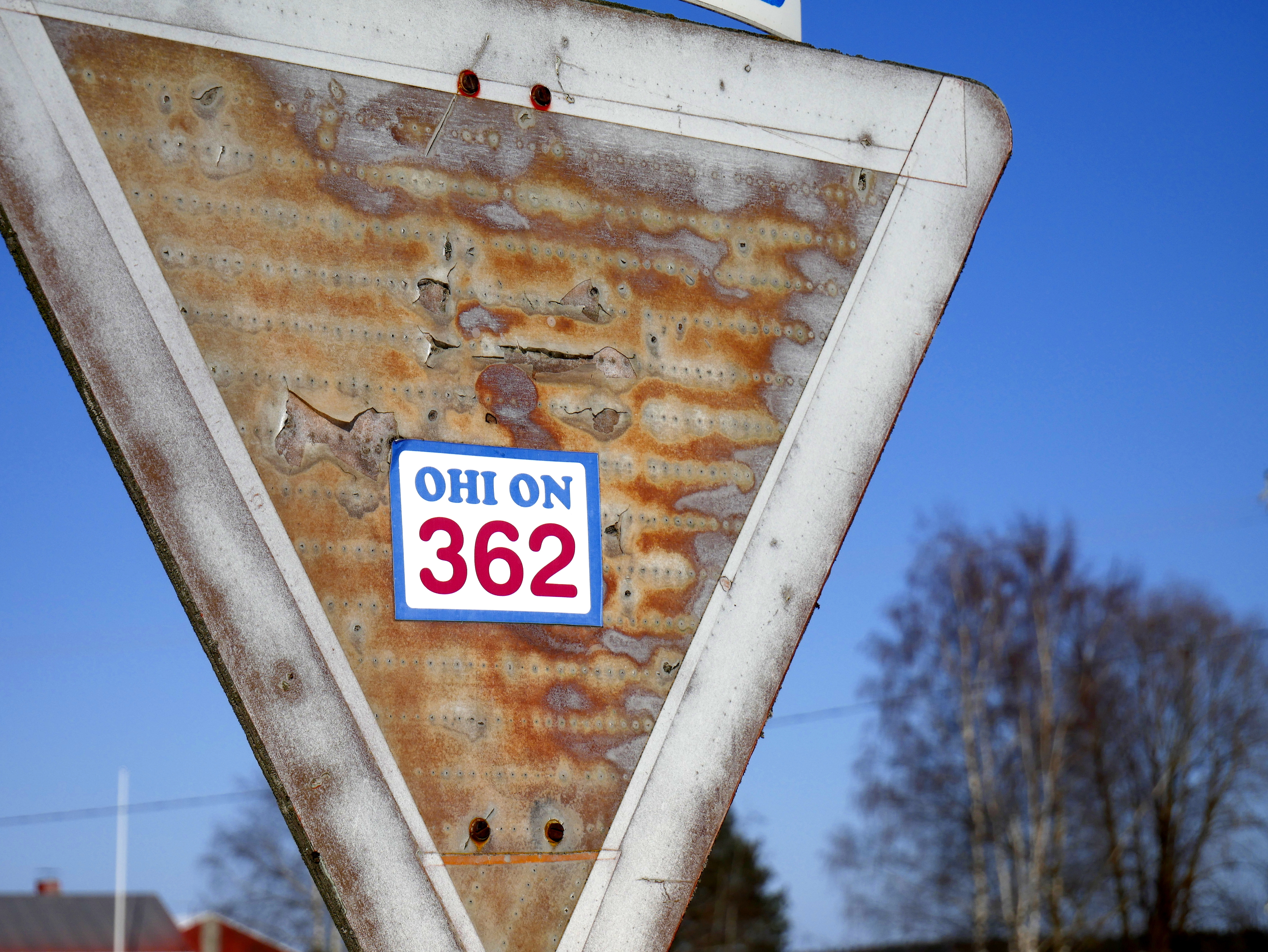 "It's over 362" -sticker (which means that mandatory military service after 362 days is over) in road sign, Finland.